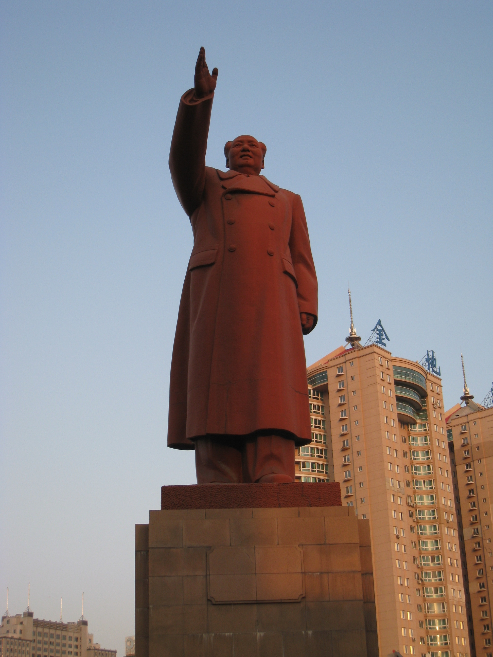 Statue of Mao Zedong in Dandong (Lianing, China) next to the railway station.